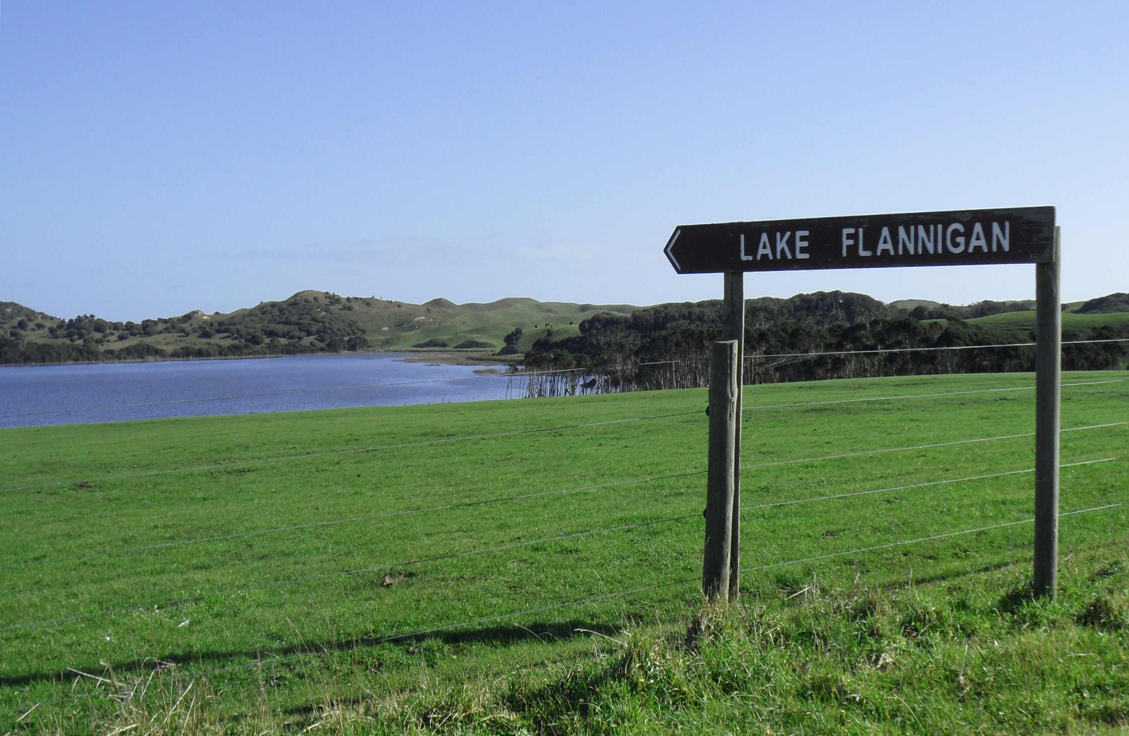 Sign to Lake Flanningan on King Island, Tasmania, Australia.